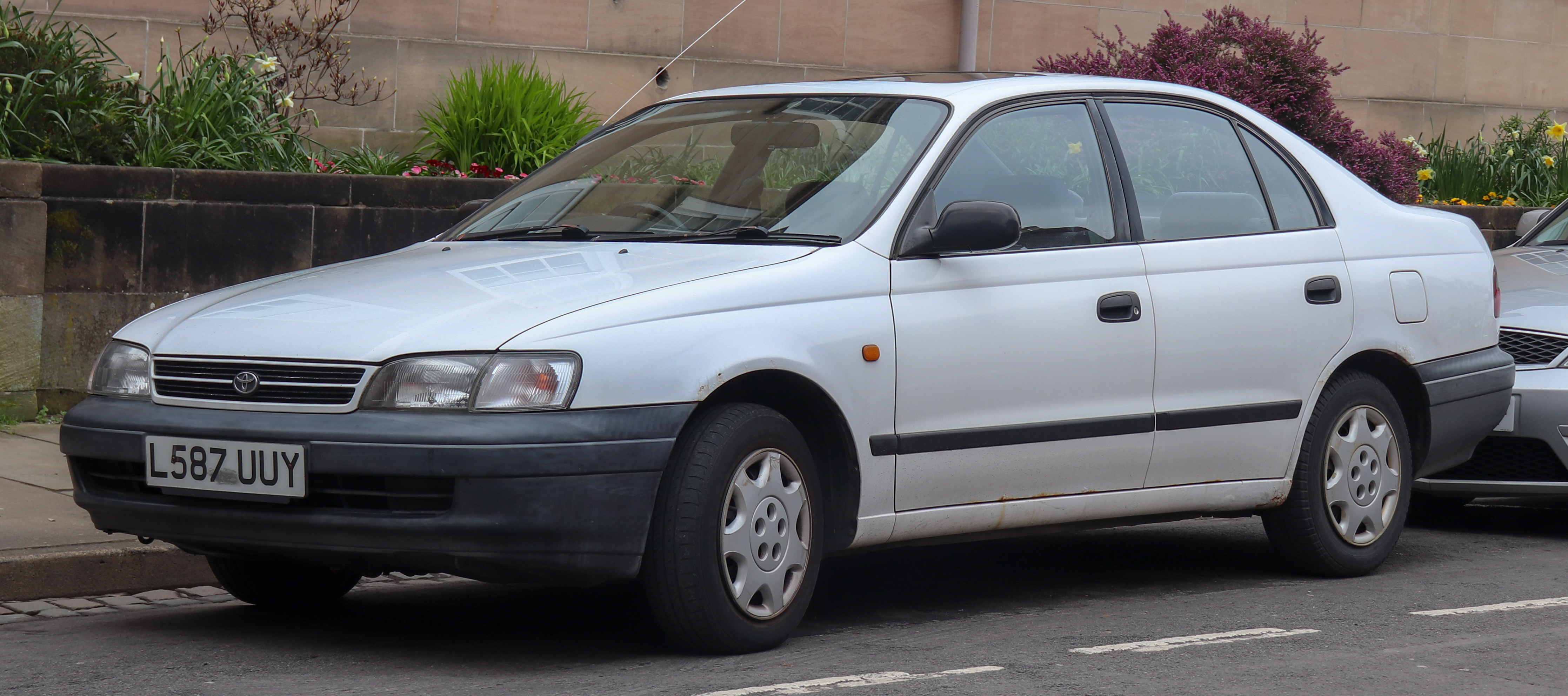 1993 Toyota Carina E DXL 2.0 Taken in Warwick